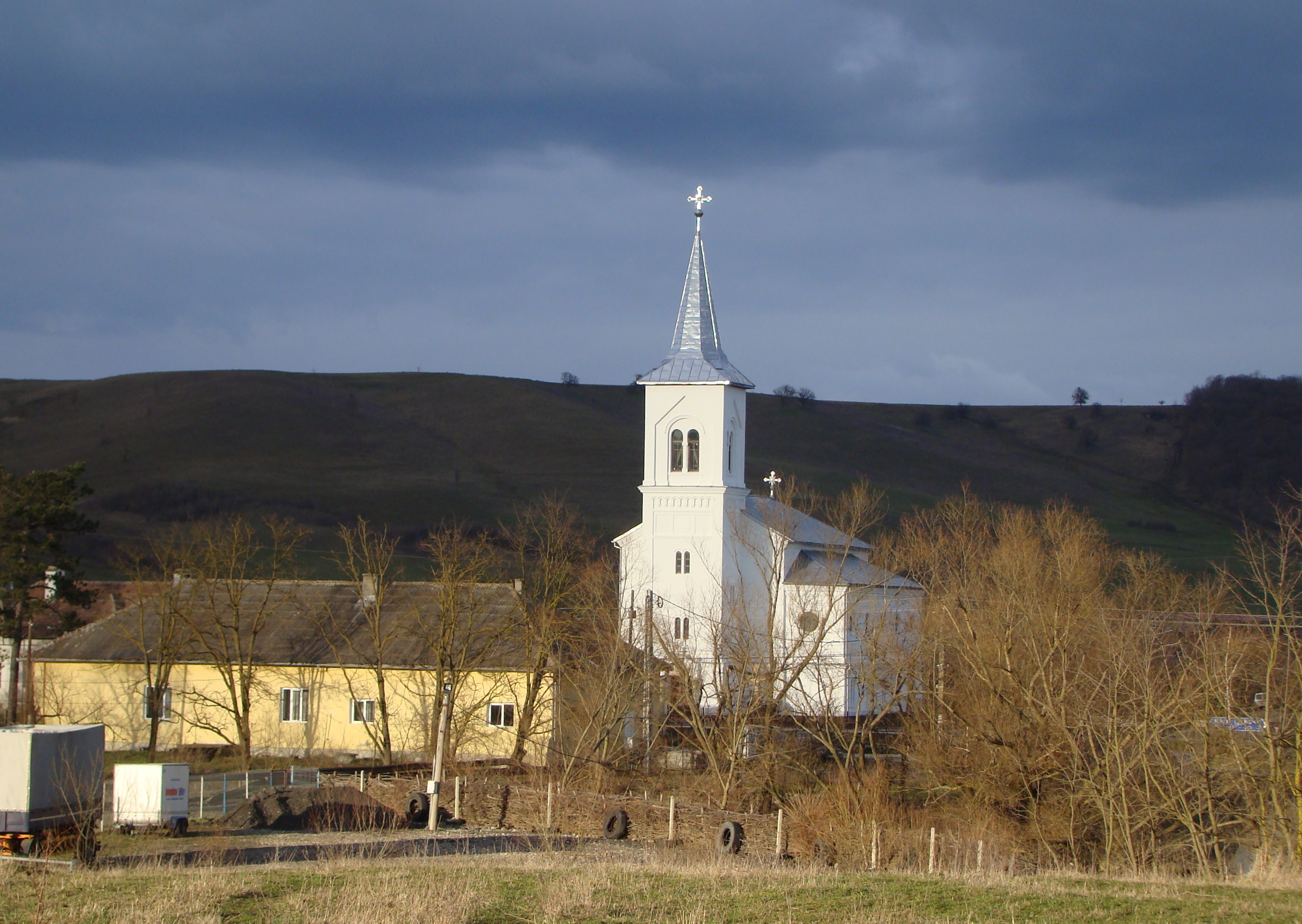 Lutheran church in Domnești, Bistrița-Năsăud county, Romania